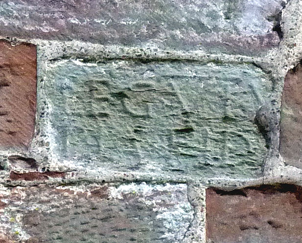 Legion VI dedication stone, Lanercost Priory. This is set in the wall of the buildings next to the priory itself and must have come from Hadrian's Wall just to the north. You may have to stand on your head to read it though (this photo has been inverted 180 degrees). It says: 'LEG VI V PIA FID' which translates as 'Legion Six Victrix made this'.